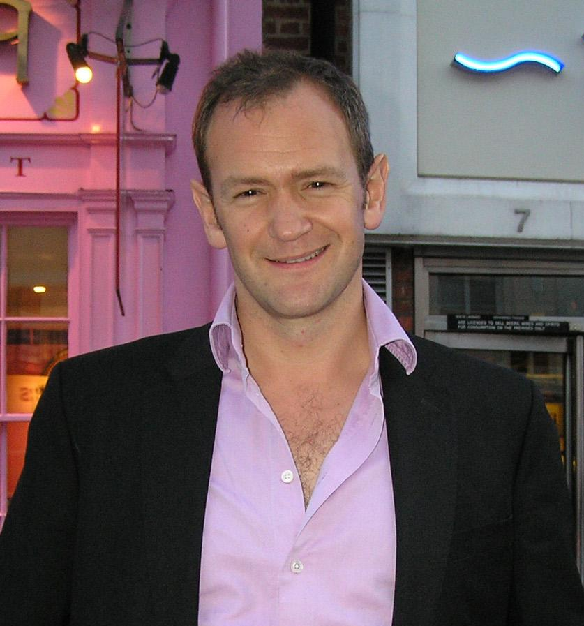 Alexander Armstrong, British comedian.